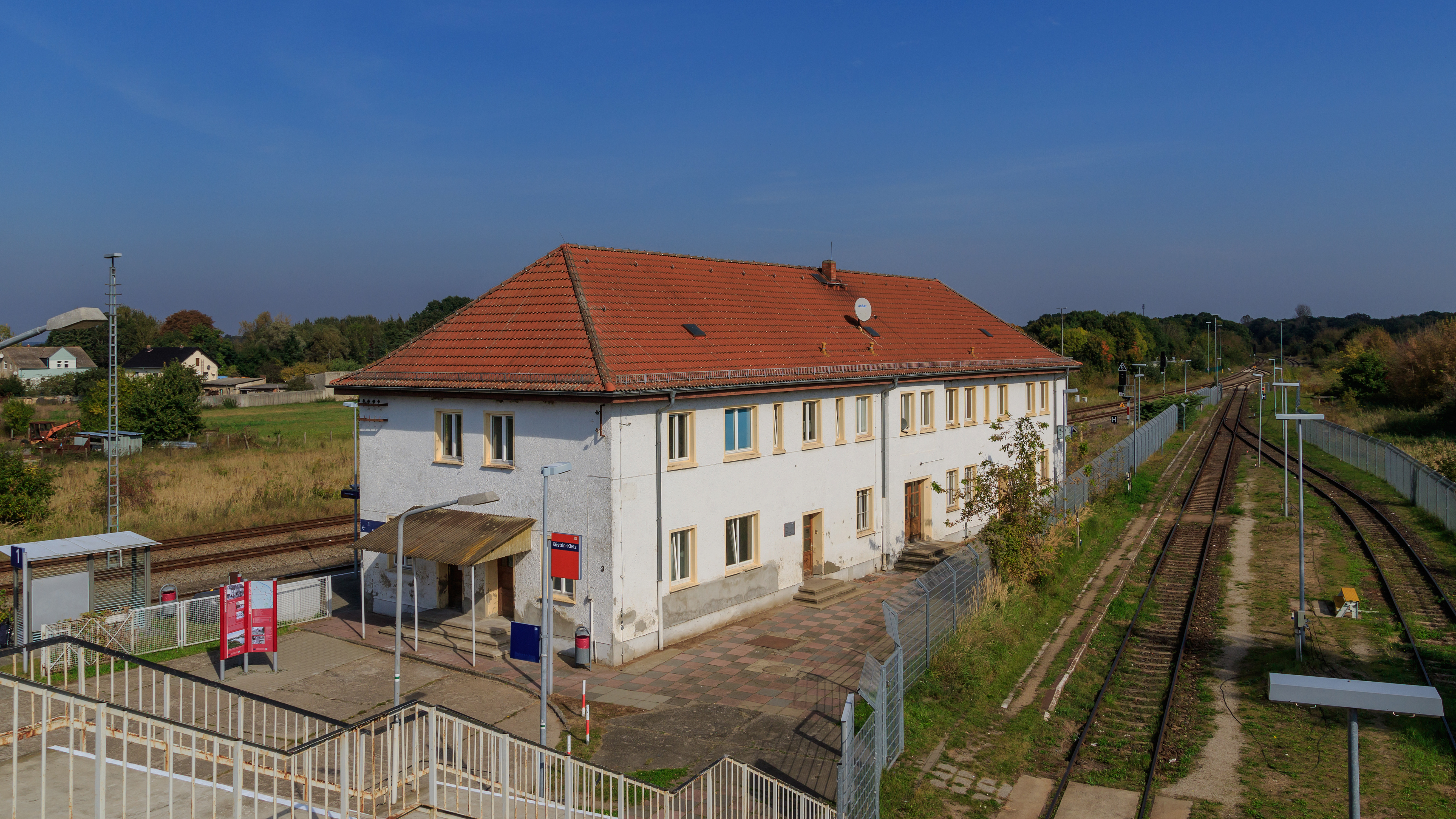 Küstrin-Kietz railway station near Germany-Poland border